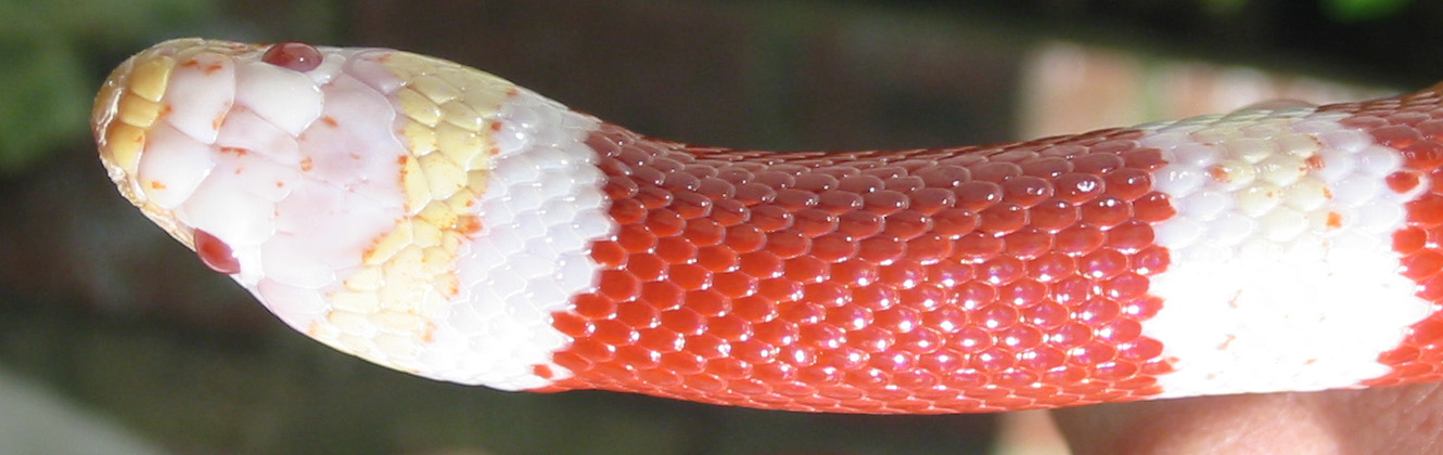 Detail of the head of an albino Lampropeltis triangulum nelsoni (Nelson's milksnake).